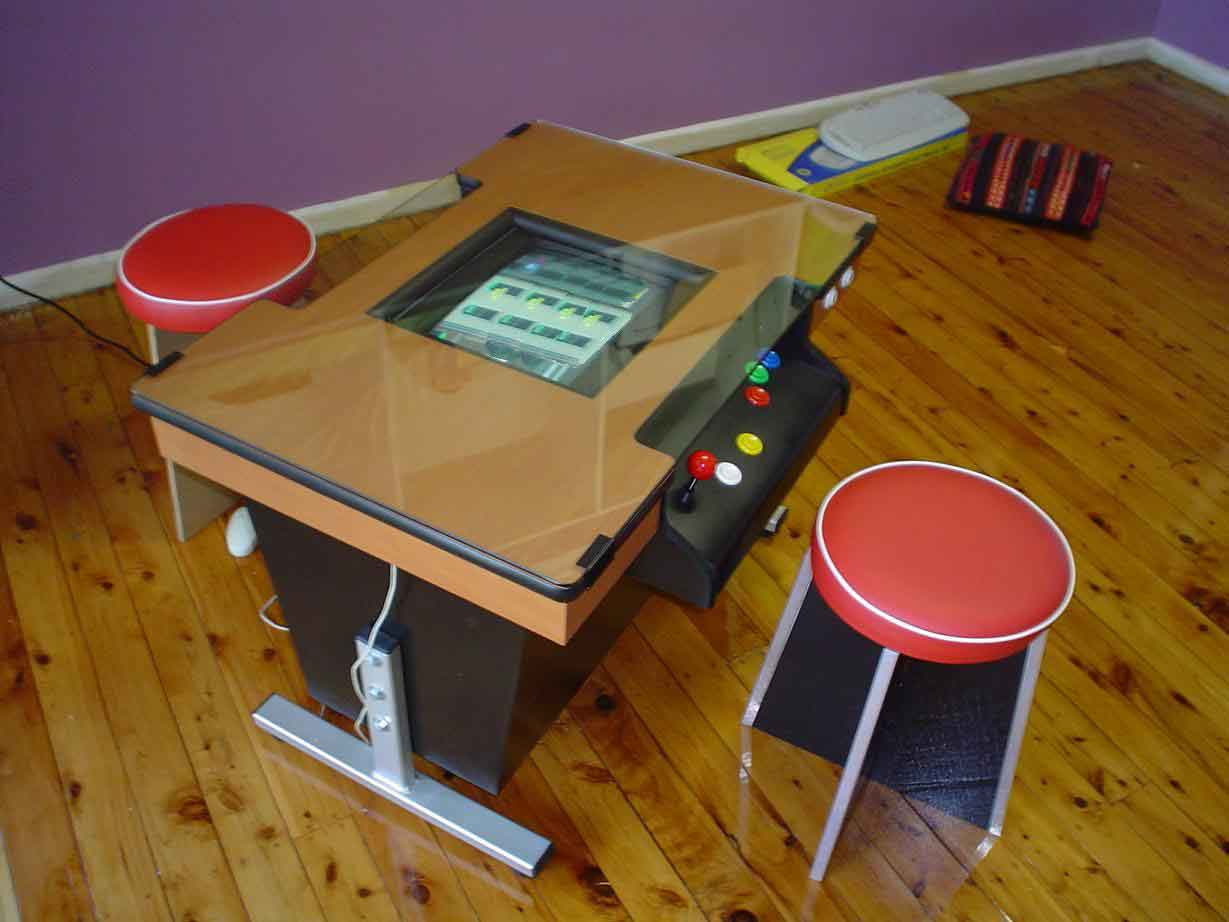 japanese/aussie style cocktail cab. home built to run MAME